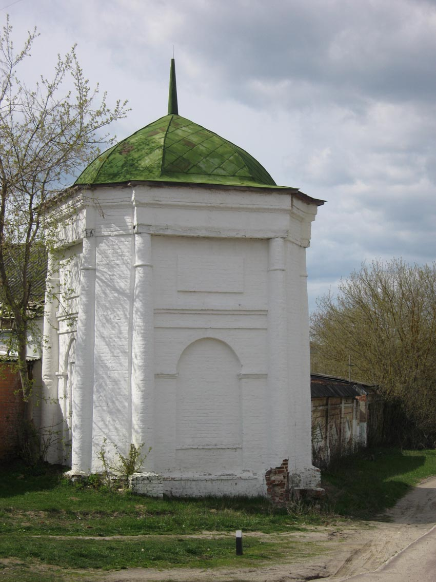 The corner tower of Beloberezhskaya pustyn, near Bryansk.